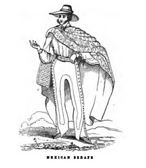 A serape is like a blanket that a person wears over his shoulder but if wealthy then instead of as plain blanket this cloth is of the finest quality and highly decorated.